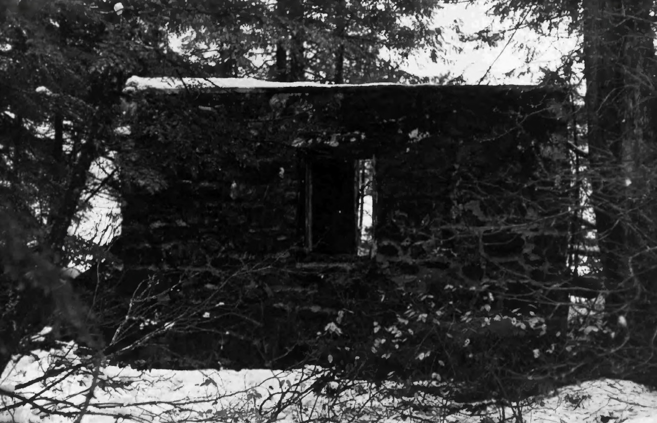 Storehouse No. 3